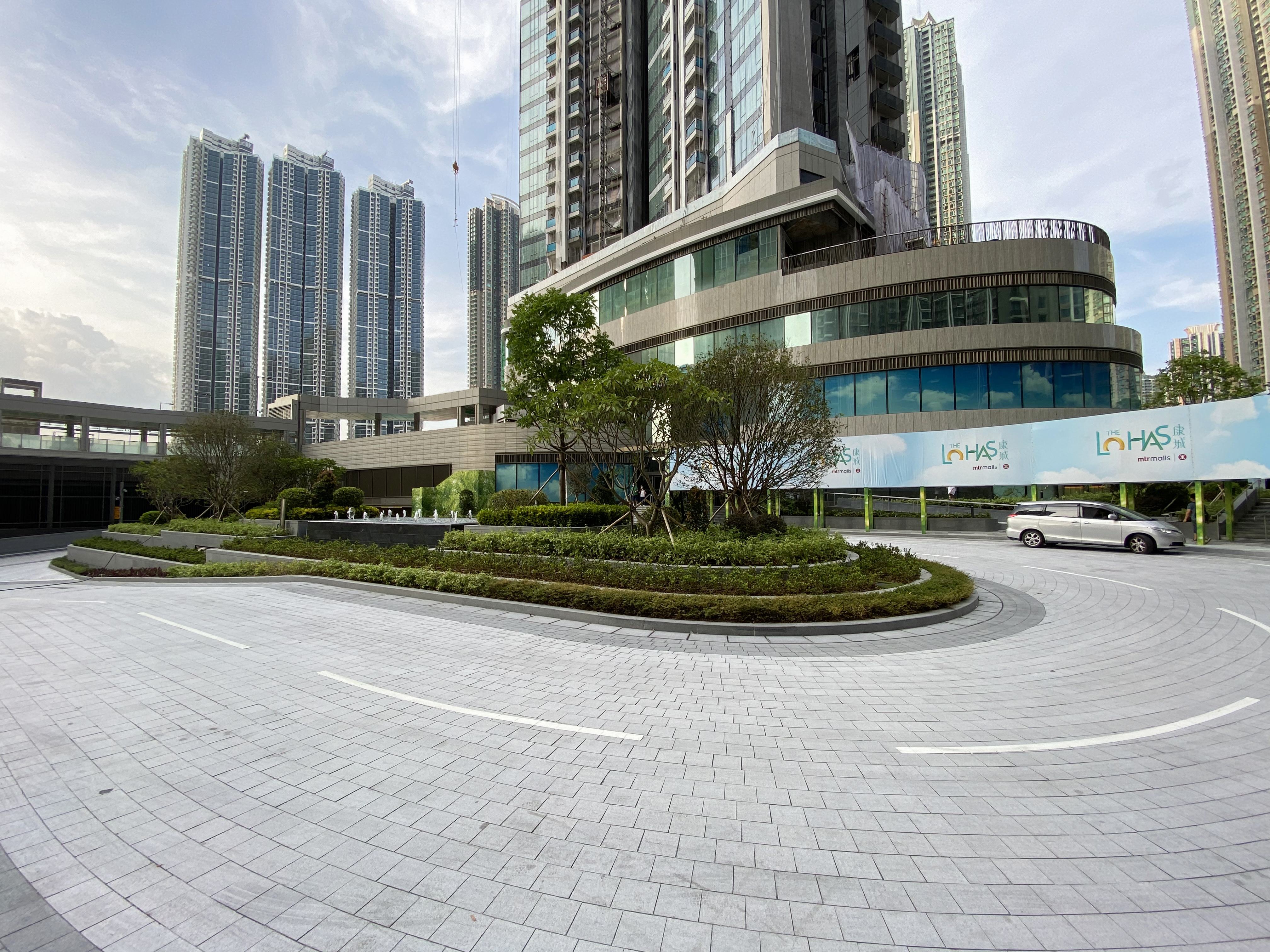 THE LOHAS Drop off area